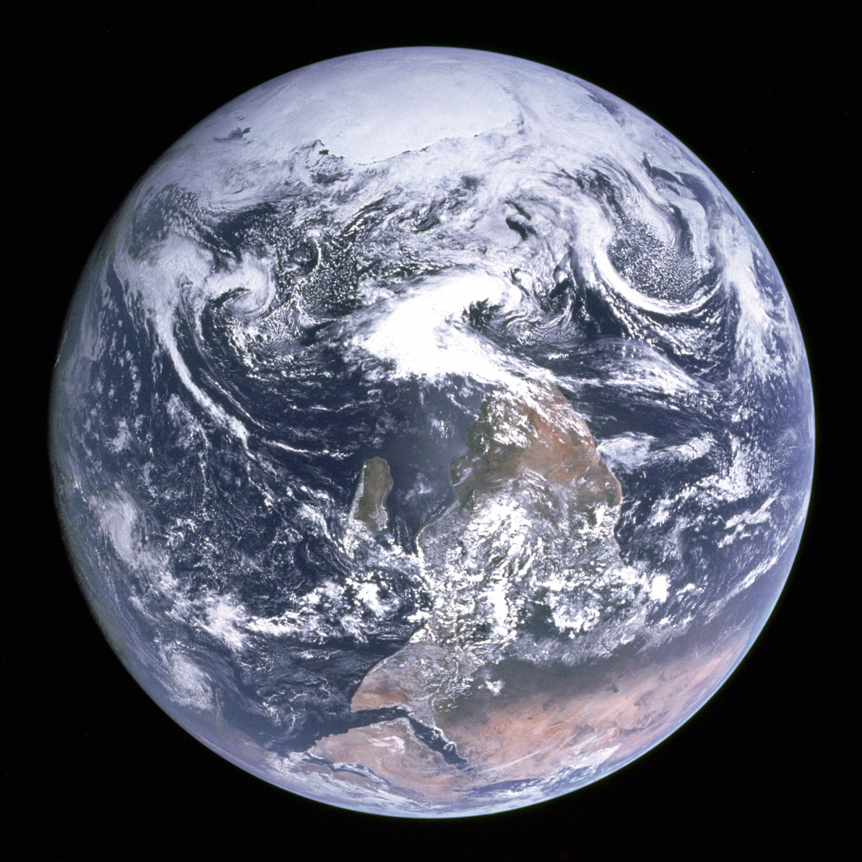 vertically flipped version of the "Blue Marble" photograph. Allegedly the original orientation of the photograph. Given in evidence by uploader: Geek Trivia: Worth a thousand worlds - TechRepublic Apollo 17 Photos Day 1 (archived on Wayback Machine)